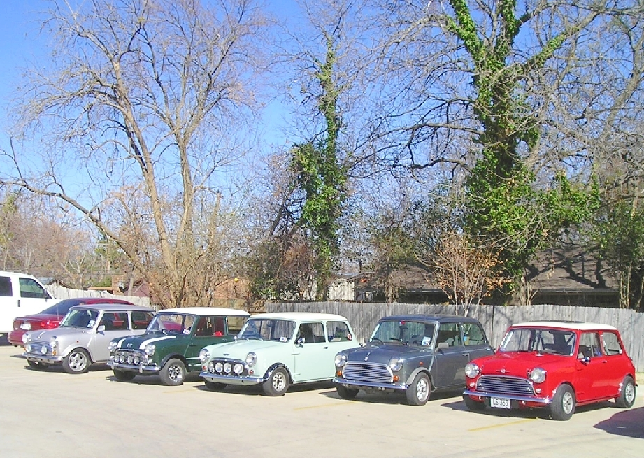 A collection of restored Mini cars at a meeting of a typical USA Mini enthusiasts club: "Minis Of Texas" (MOT).